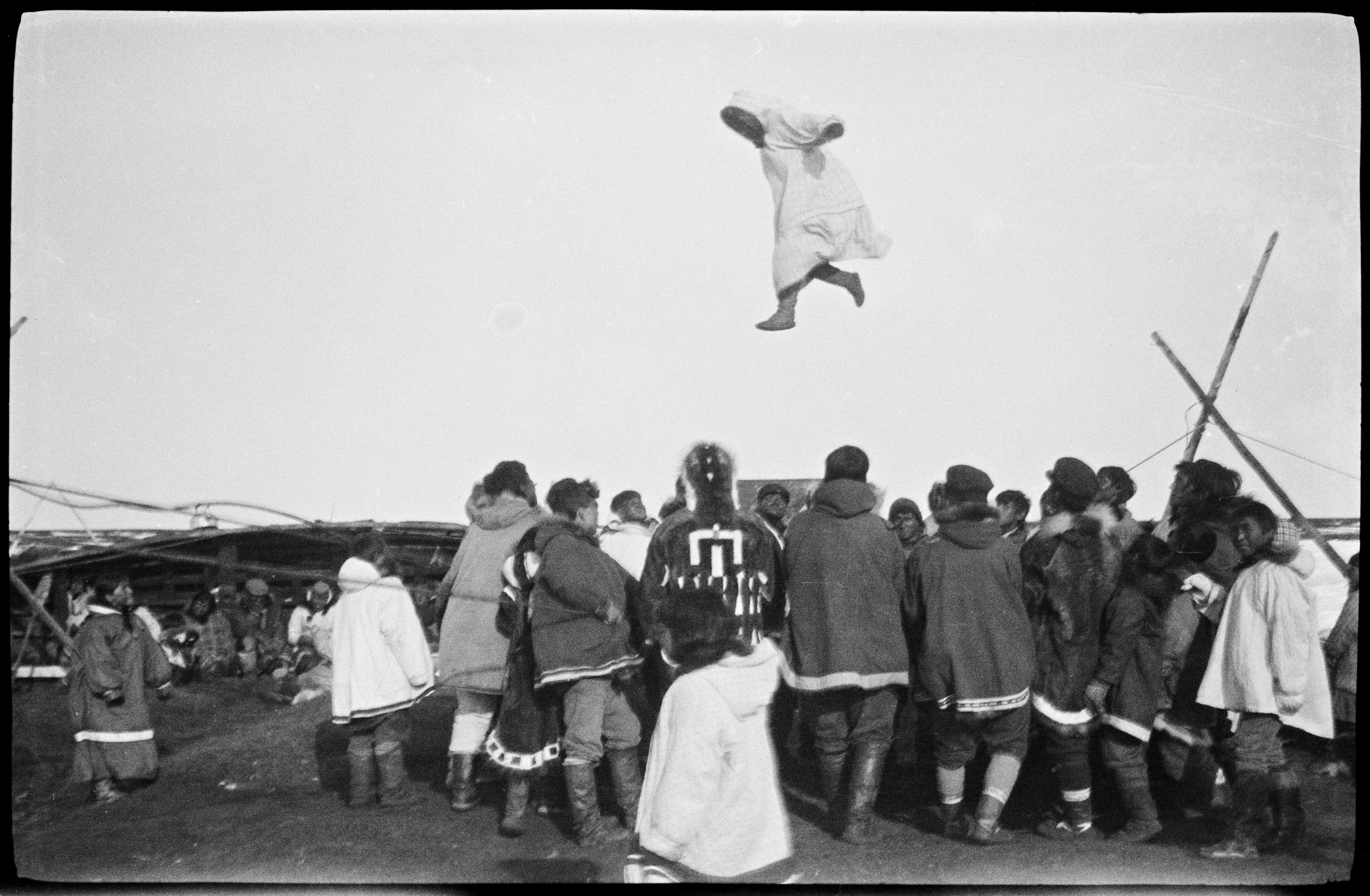 Beskrivelse / Description: Et skinn ble spent ut med tau, omtrent som en trampoline, som det ble hoppet på. Hopperne kunne komme flere meter opp i været. / A blanket is stretched out with ropes, much like a trampoline, as it is jumped on. Jumpers can get several meters into the air. Dato / Date: 1922-1923 Sted / Place: USA, Alaska, Wainwright Fotograf / Photographer: ukjent / unknown member of the Maud expedition Digital kopi av original / Digital copy of original: s/h negativ, plast Eier / Owner Institution: Nasjonalbiblioteket / National Library of Norway Lenke / Link: Bildesignatur / Image Number: bldsa_SURA826